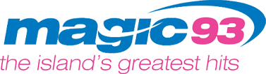 Former CHLQ logo as adult contemporary/classic hits "Magic 93"